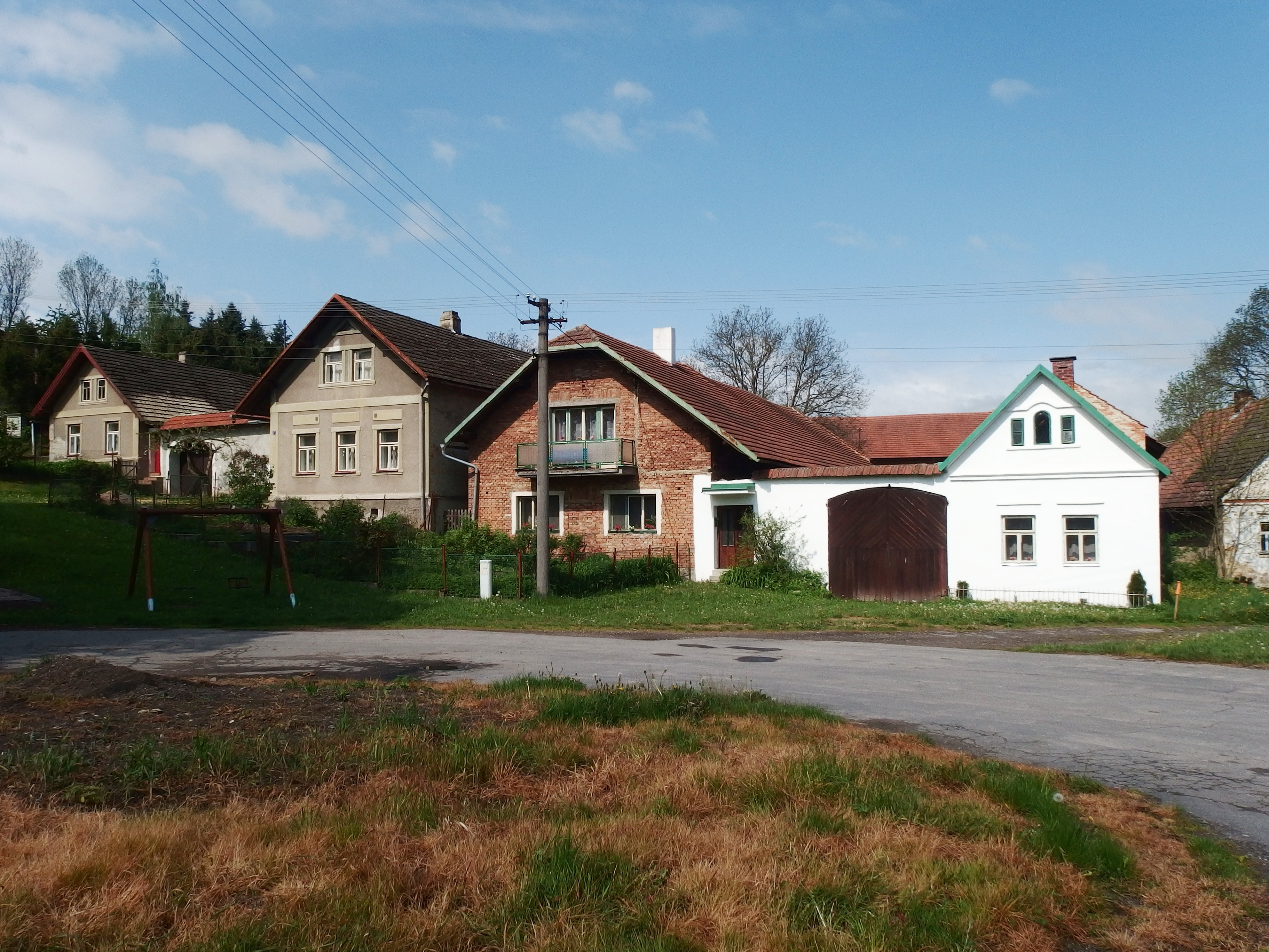 Leština, Ústí nad Orlicí District, Czech Republic, part Doubravice.